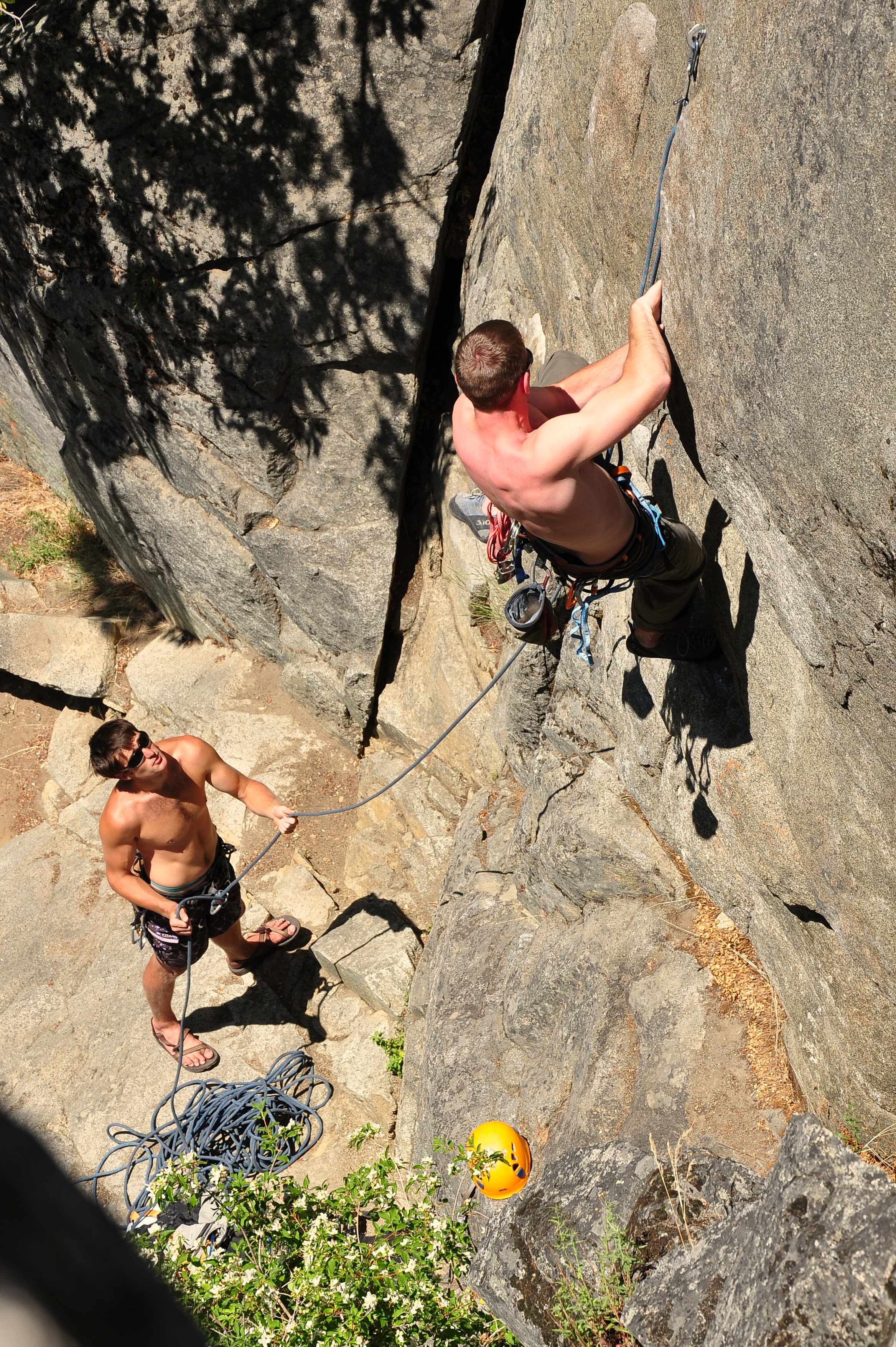 Climbing in Leavenworth, Washington